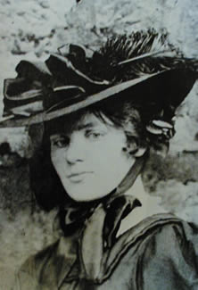 Jessie Marion King in her early years